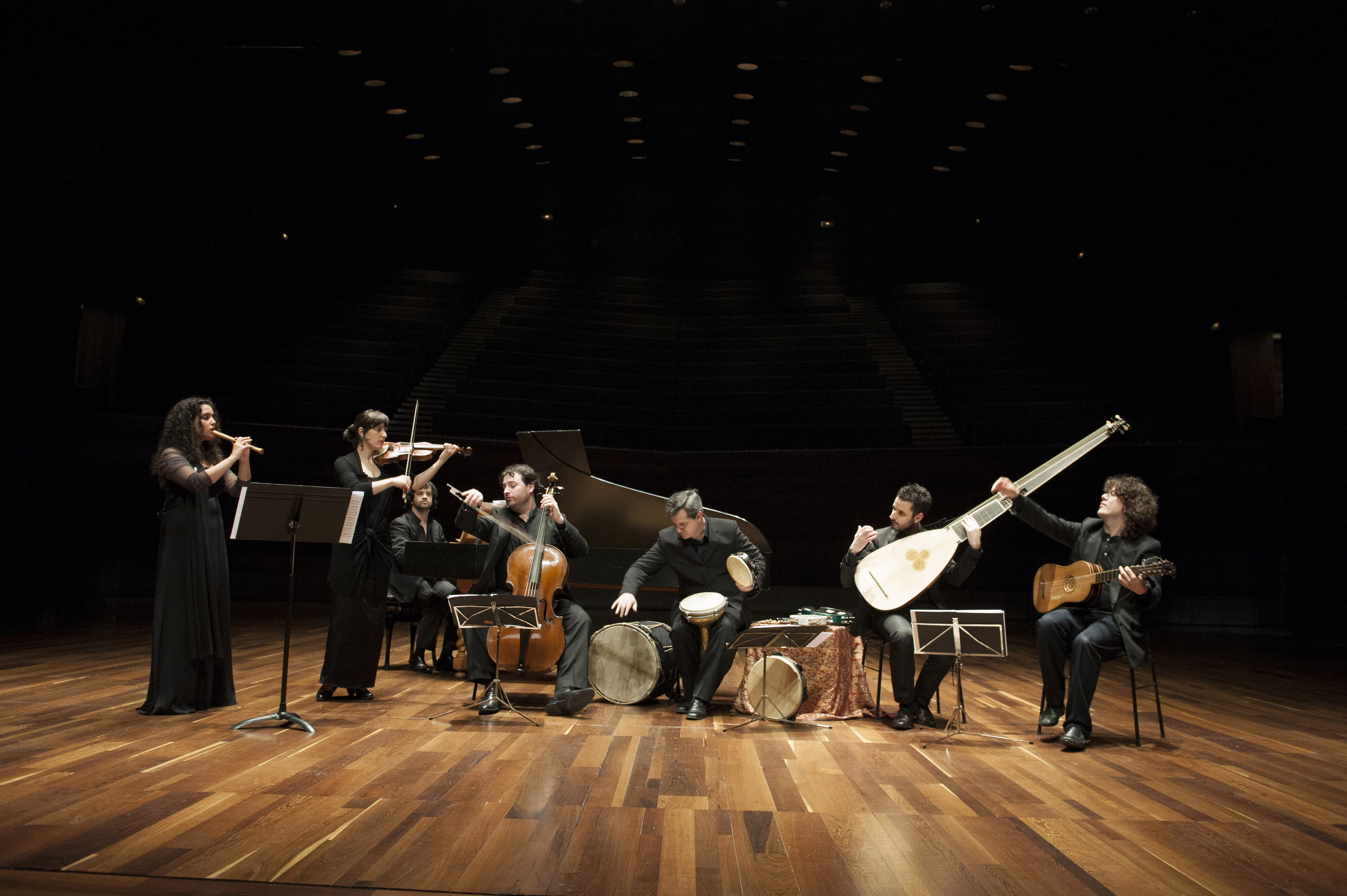 Author: Manuel Prieto. CD “Andrea Falconieri. Il Spiritillo Brando. Dance music in the courts of Italy and Spain, c.1650”. La Ritirata - Josetxu Obregón. Glossa GCD 923101 (2013)